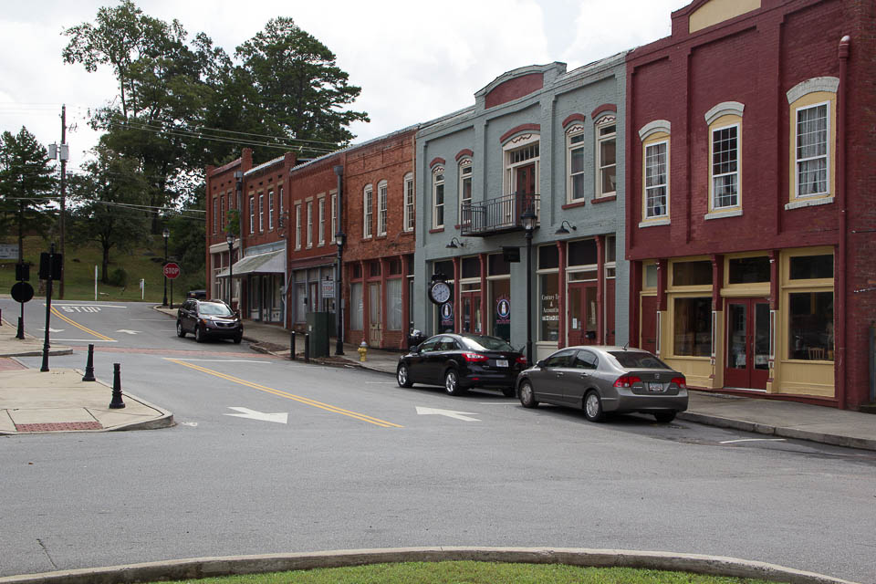 Adairsville Historic District